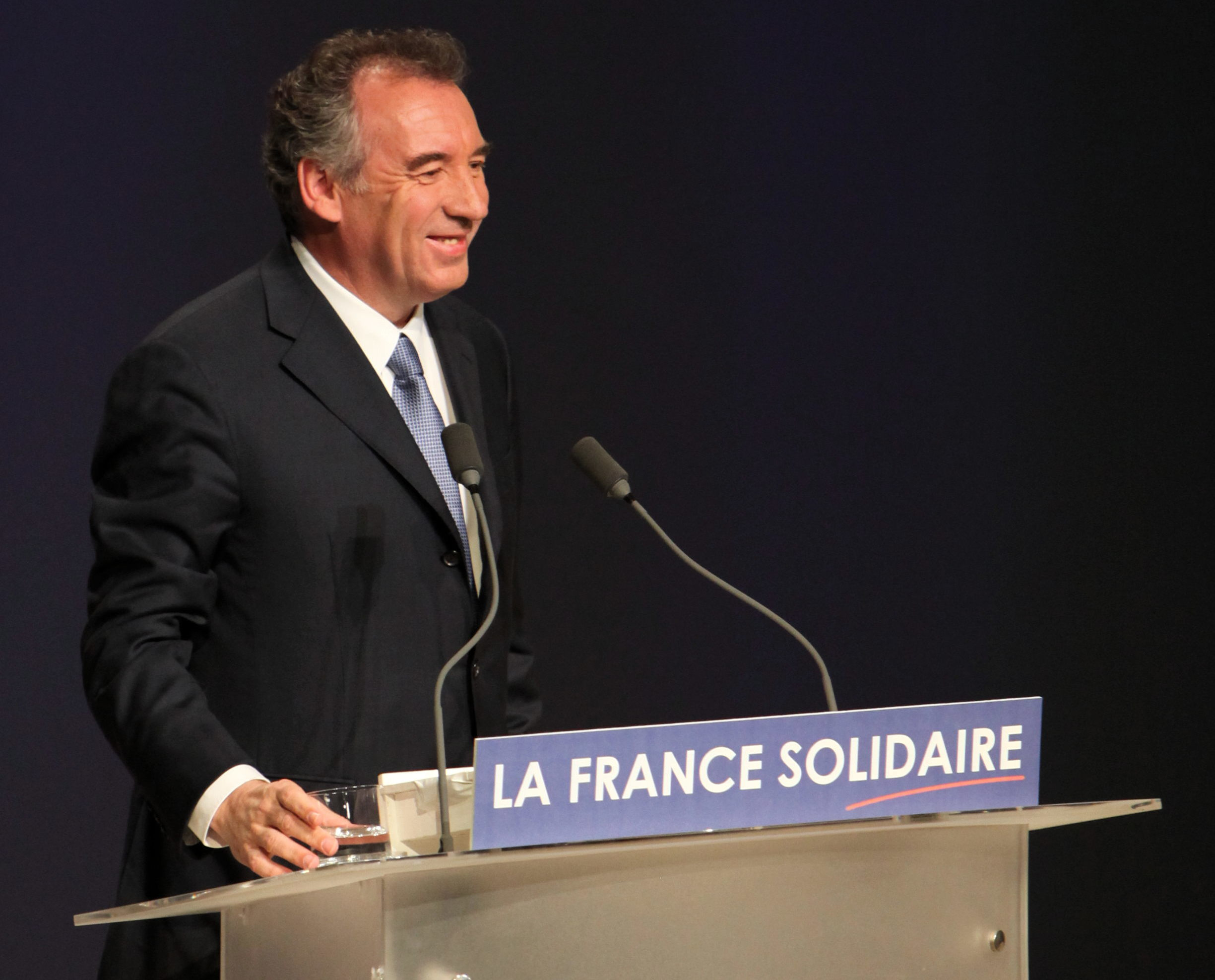 François Bayrou at the meeting at Silo, Marseille